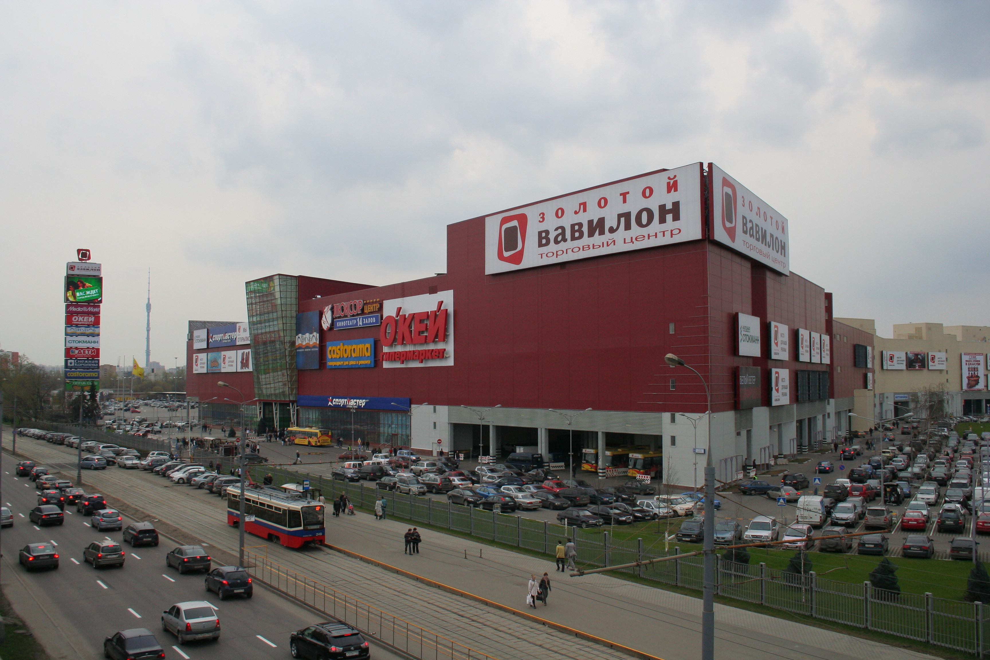 Shopping mall «Golden Babylon Rostokino» in Moscow.